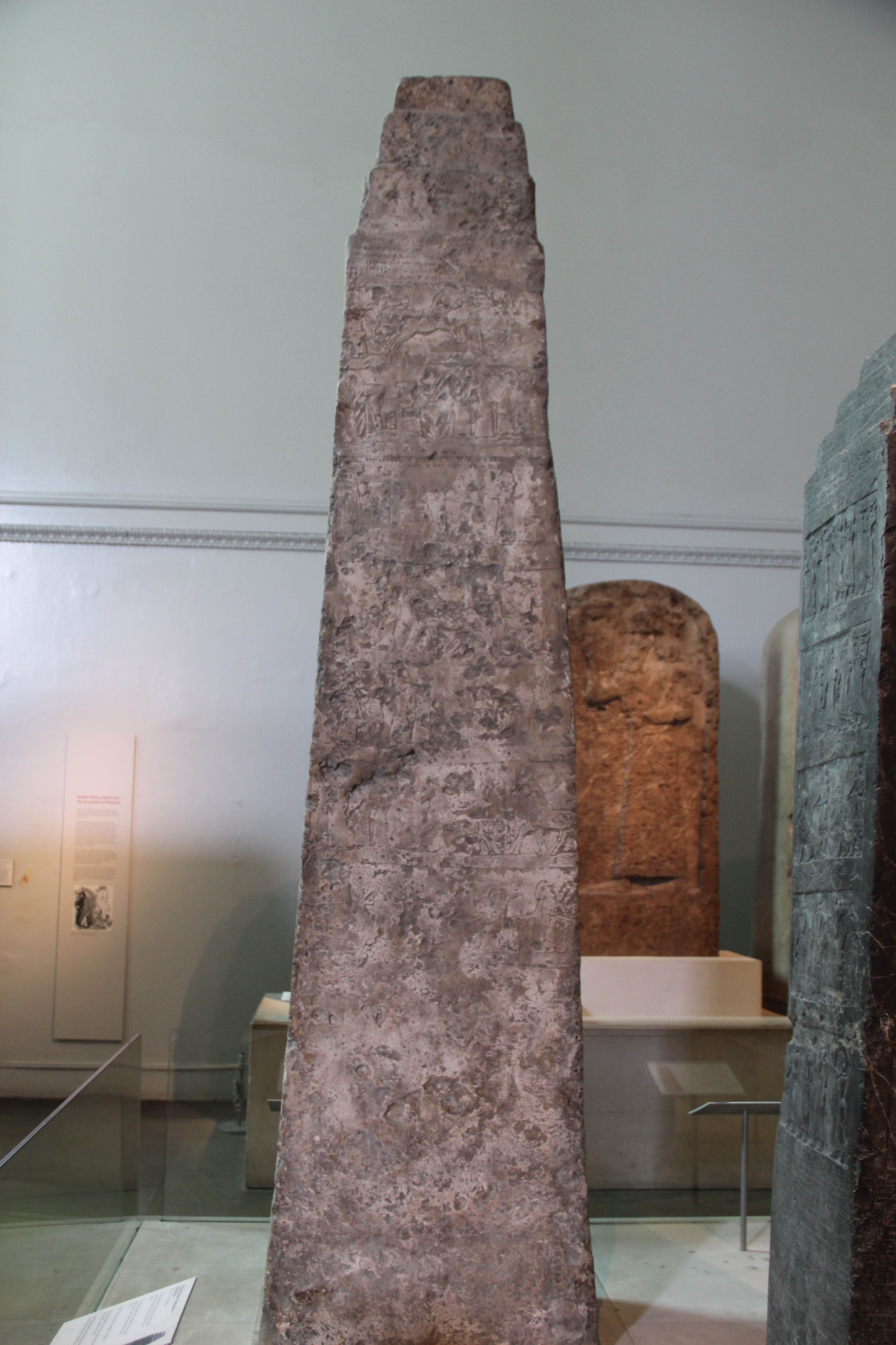 Neo-Assyrian Limestone White Obelisk of Ashurnasirpal I, Nineveh, 1049–1031 BC Assyrian Sculpture & Balawat Gates Gallery, British Museum, London, England, UK. Complete indexed photo collection at .